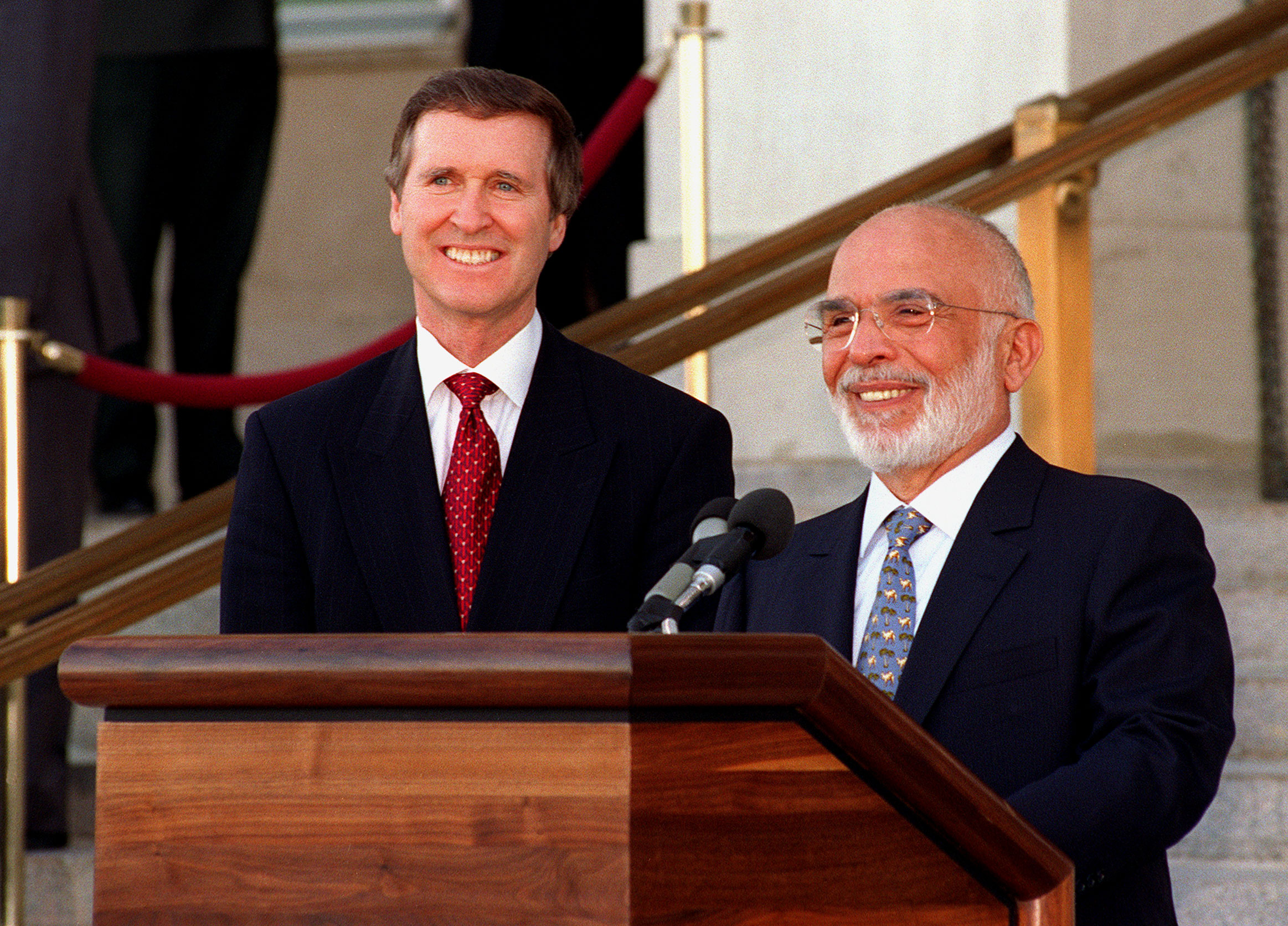 Secretary of Defense William S. Cohen (left), and King Hussein I (right), of the Hashemite Kingdom of Jordan, conduct a joint press availability on the steps of the Pentagon. Cohen hosted an armed forces full honors arrival ceremony welcoming Hussein on April 2, 1997.